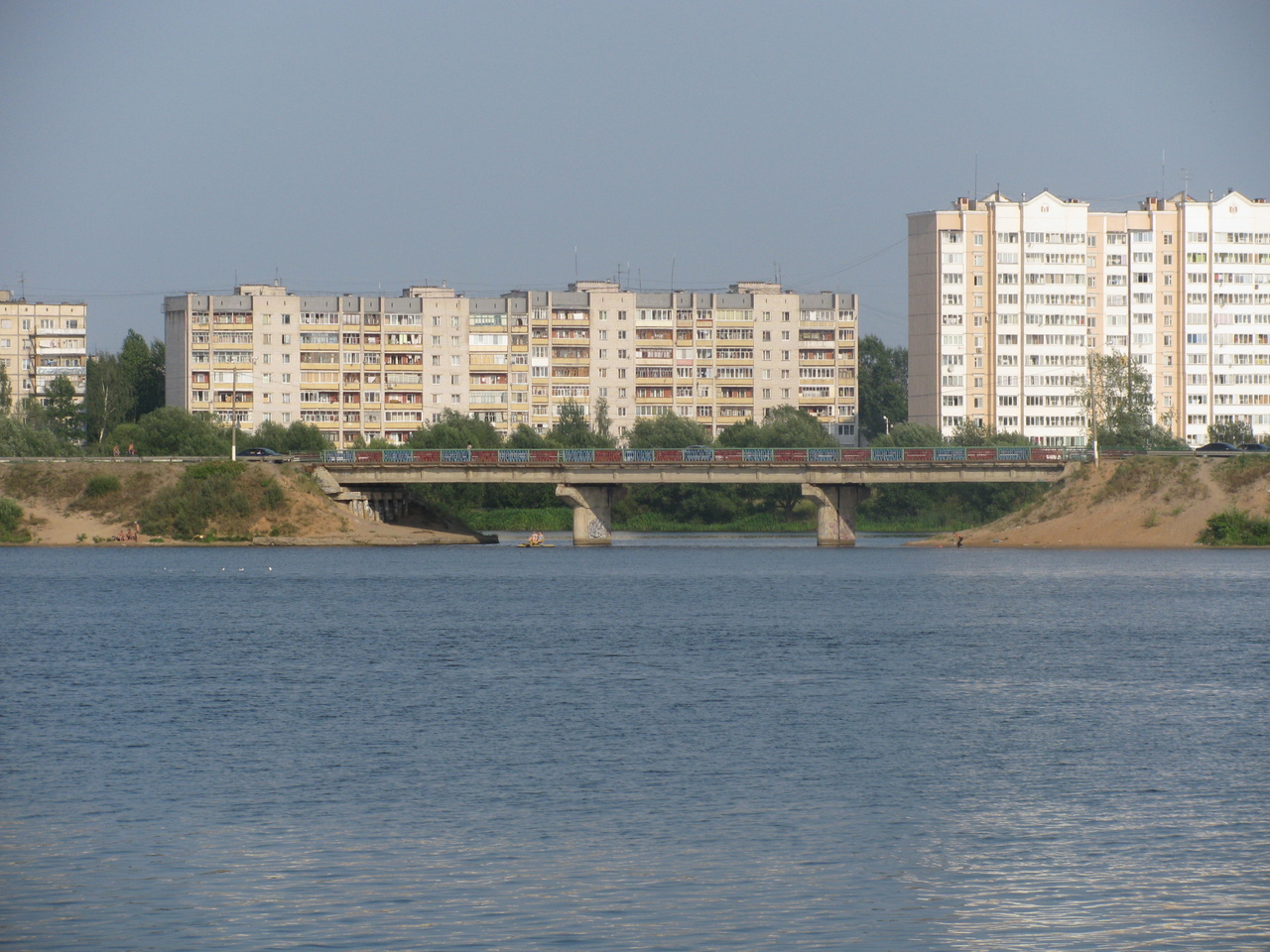 Reinforced-concrete bridge over the Donkhovka river, near its run into Volga river.